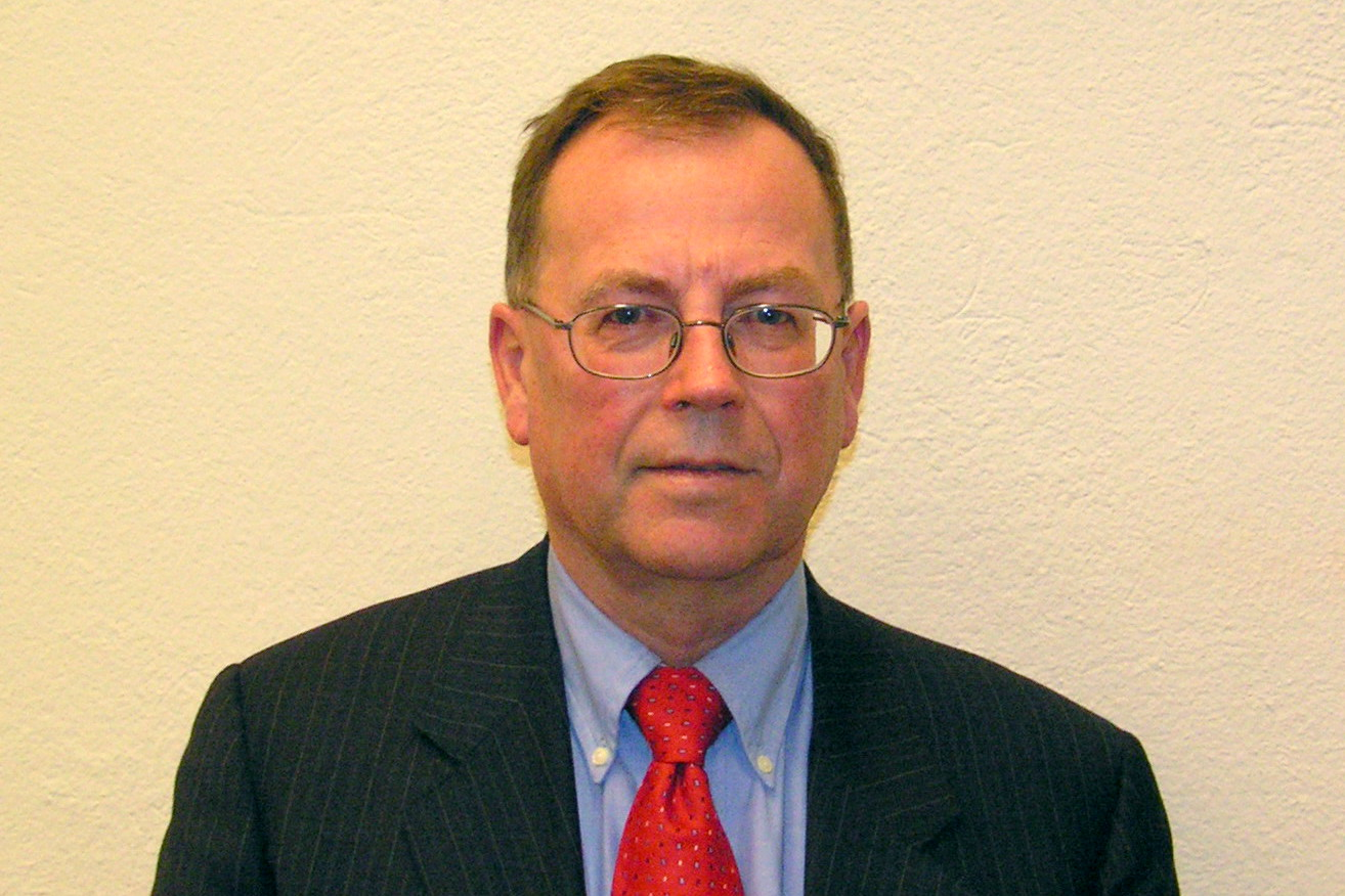 Ingvar Åkesson giving a lecture on the topic "FRA now and in the future" at Umeå University.